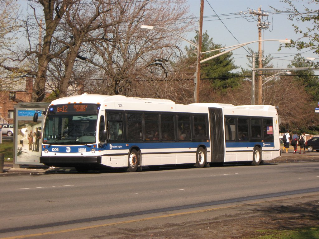 MTA New York City Bus #1206, in standard livery, picks up customers operating in Select Bus Service duty on the Bx12 Select.